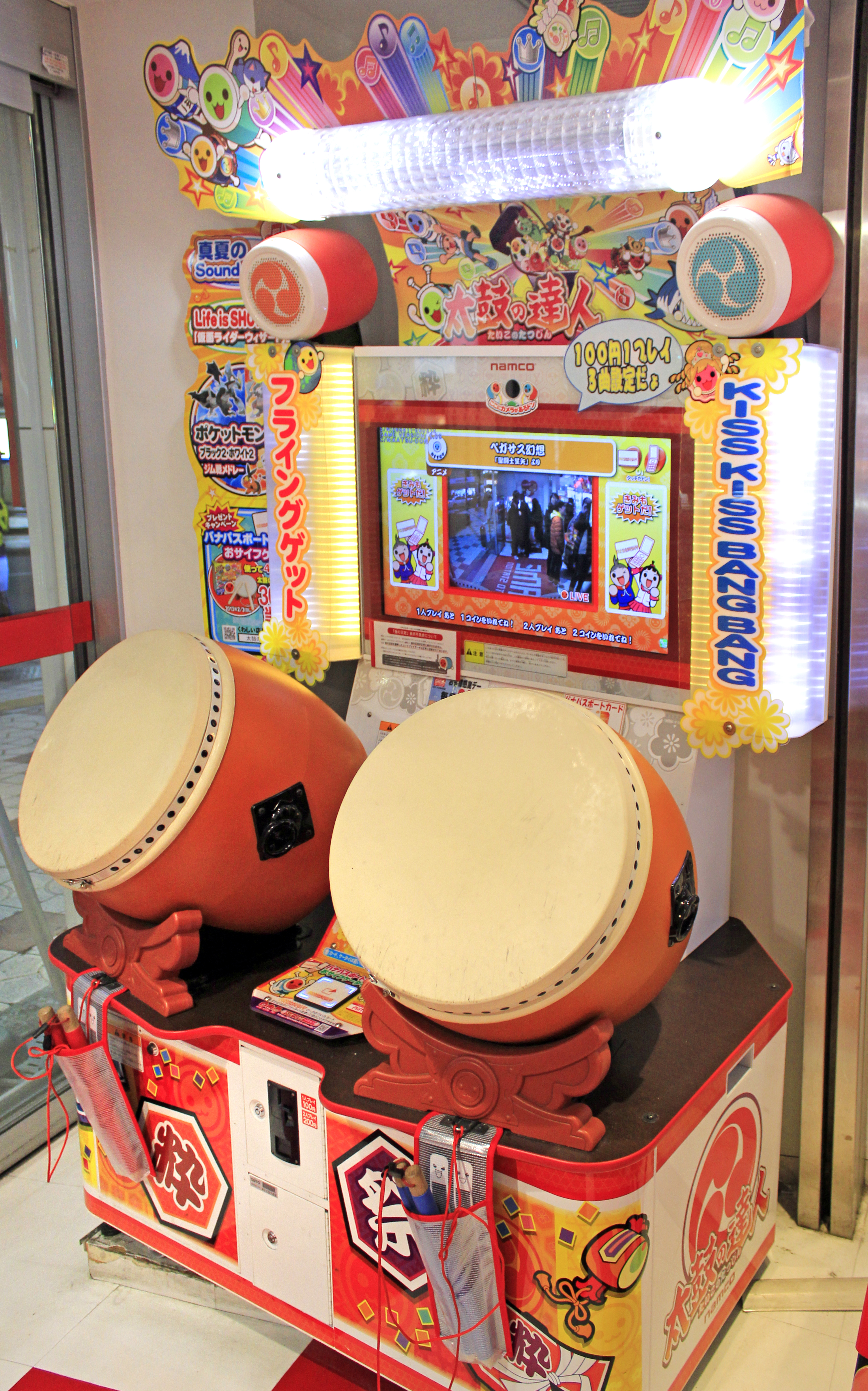 @Namba Taito Station